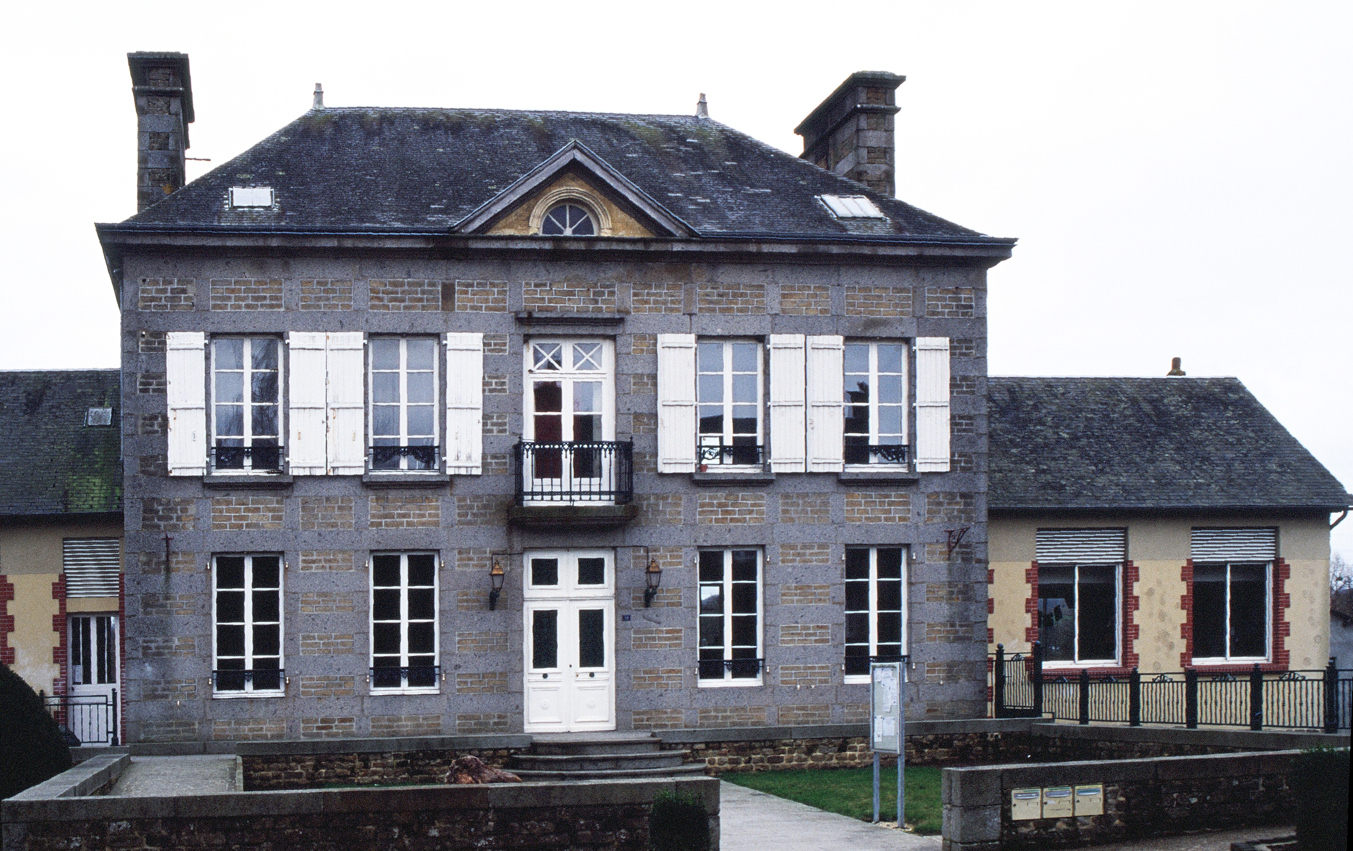 The town hall of Montsecret